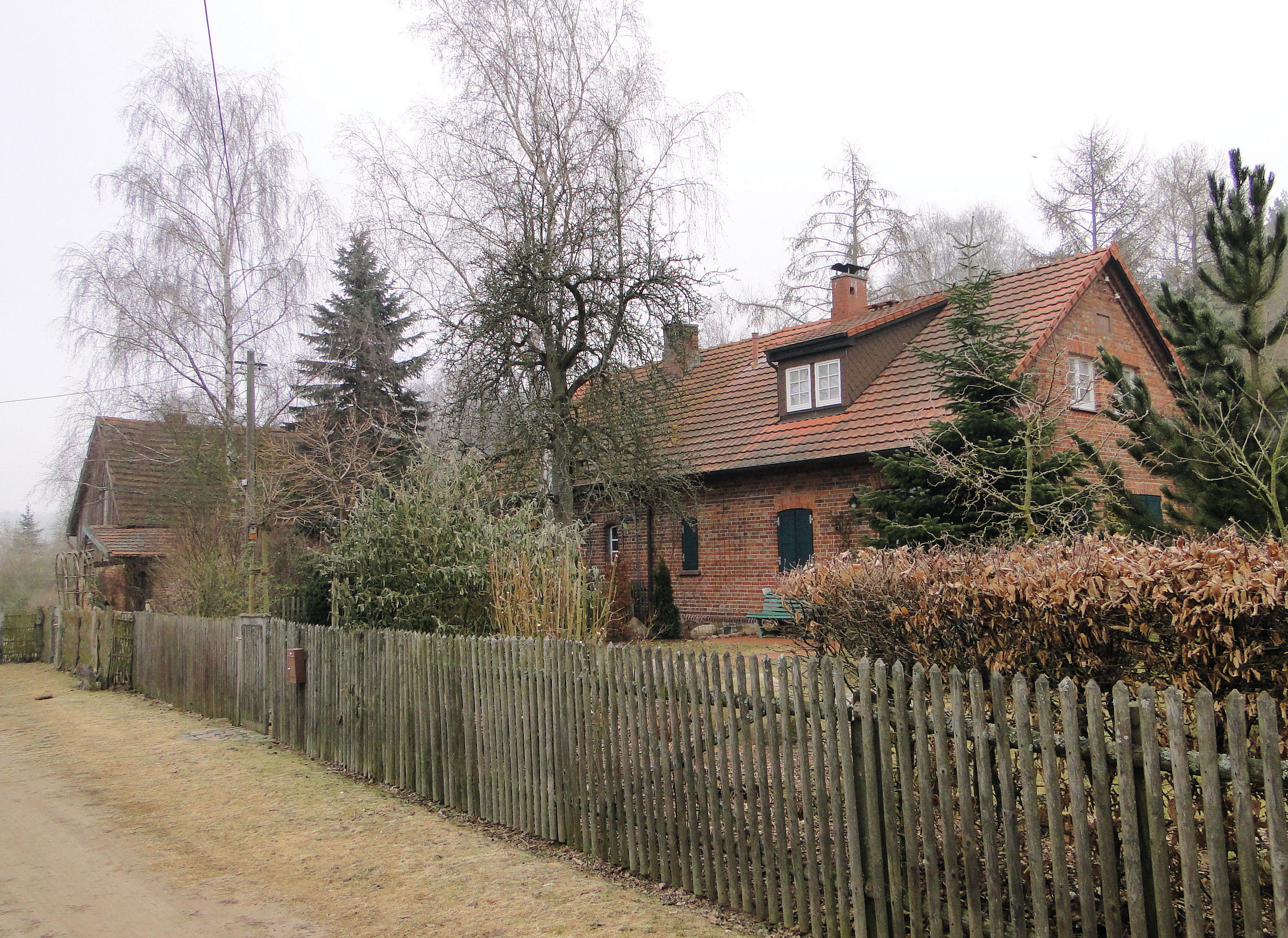 Building in Jellen, district Parchim, Mecklenburg-Vorpommern, Germany